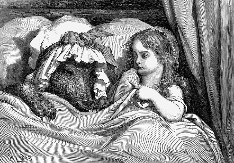 Red Riding Hood in bed with the wolf. Untitled illustration from Les Contes de Perrault, an edition of Charles Perrault's fairy tales illustrated by Gustave Dore, originally published in 1862 (source). Link to the page with the illustration in an online eBook edition of the original book.